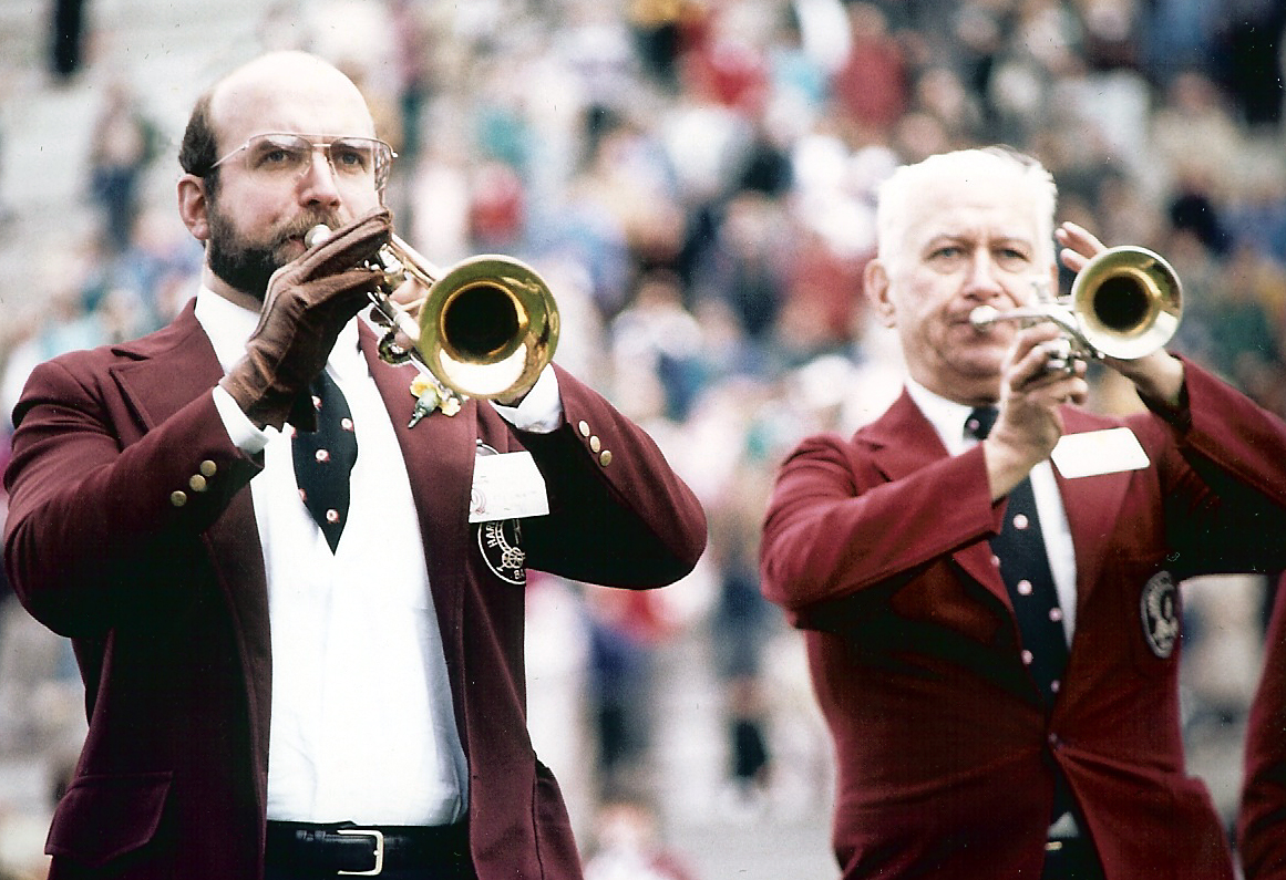 Photo of Tom McGrath '76 and his father, Joseph McGrath '44 at the HUB 75th Reunion